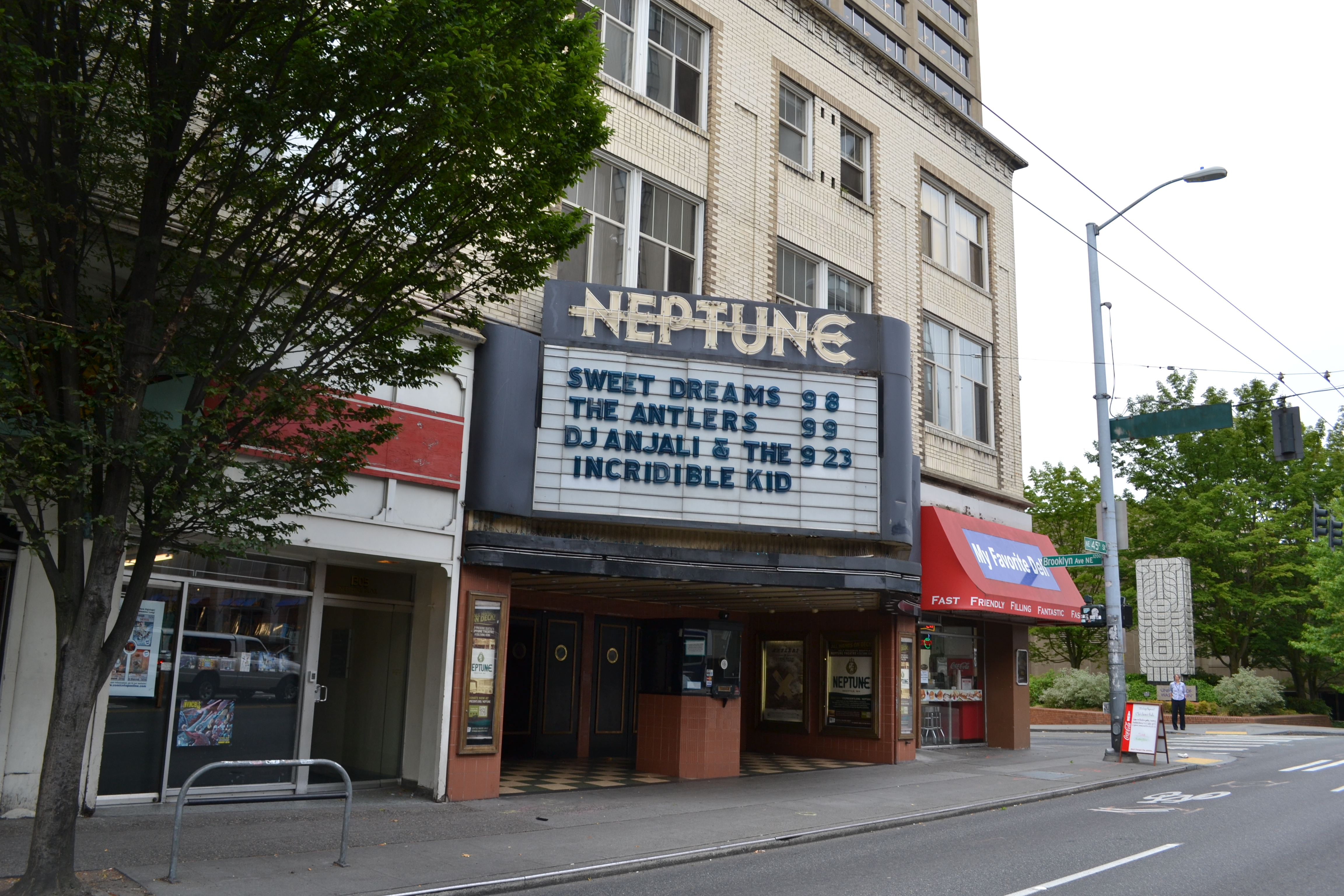 Neptune Theater (Seattle, Washington)